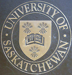 U of S Logo from Nobel Plaza plaque